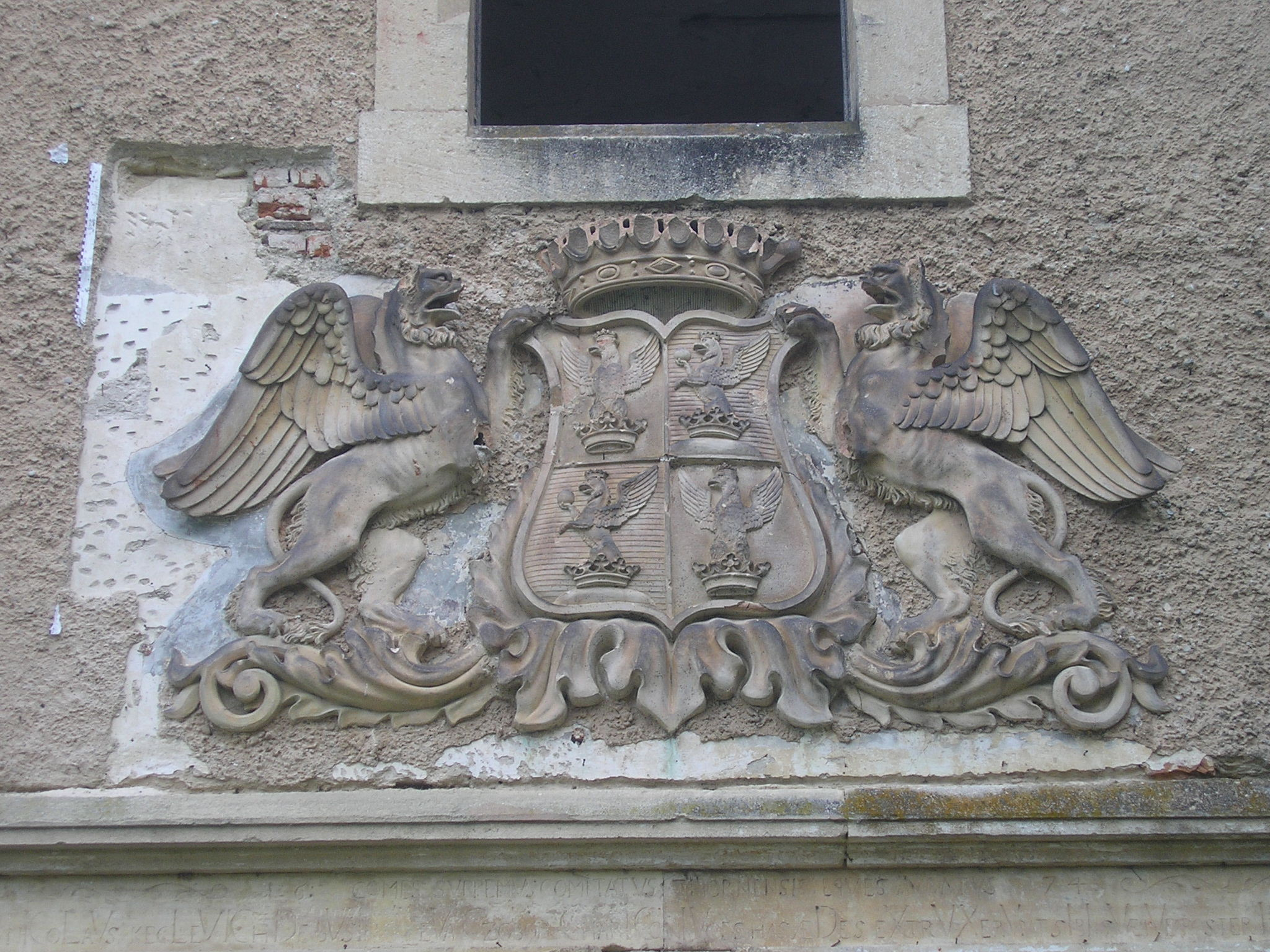 Crest of family Drašković, Opeka Manor, Vinica municipality, Varaždin county, Croatia